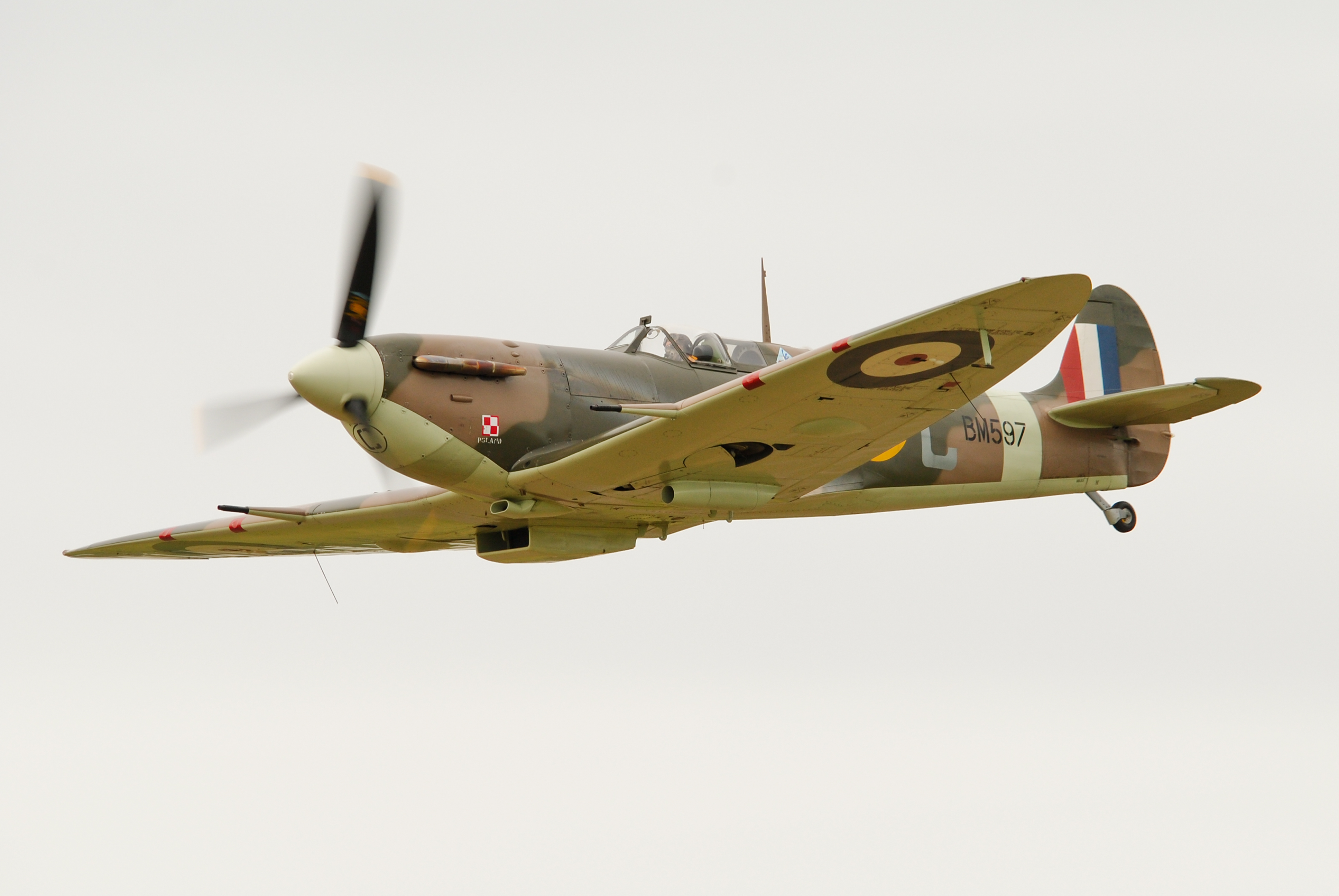 Supermarine Spitfire Vb BM597 taken at Shoreham Airshow 2013